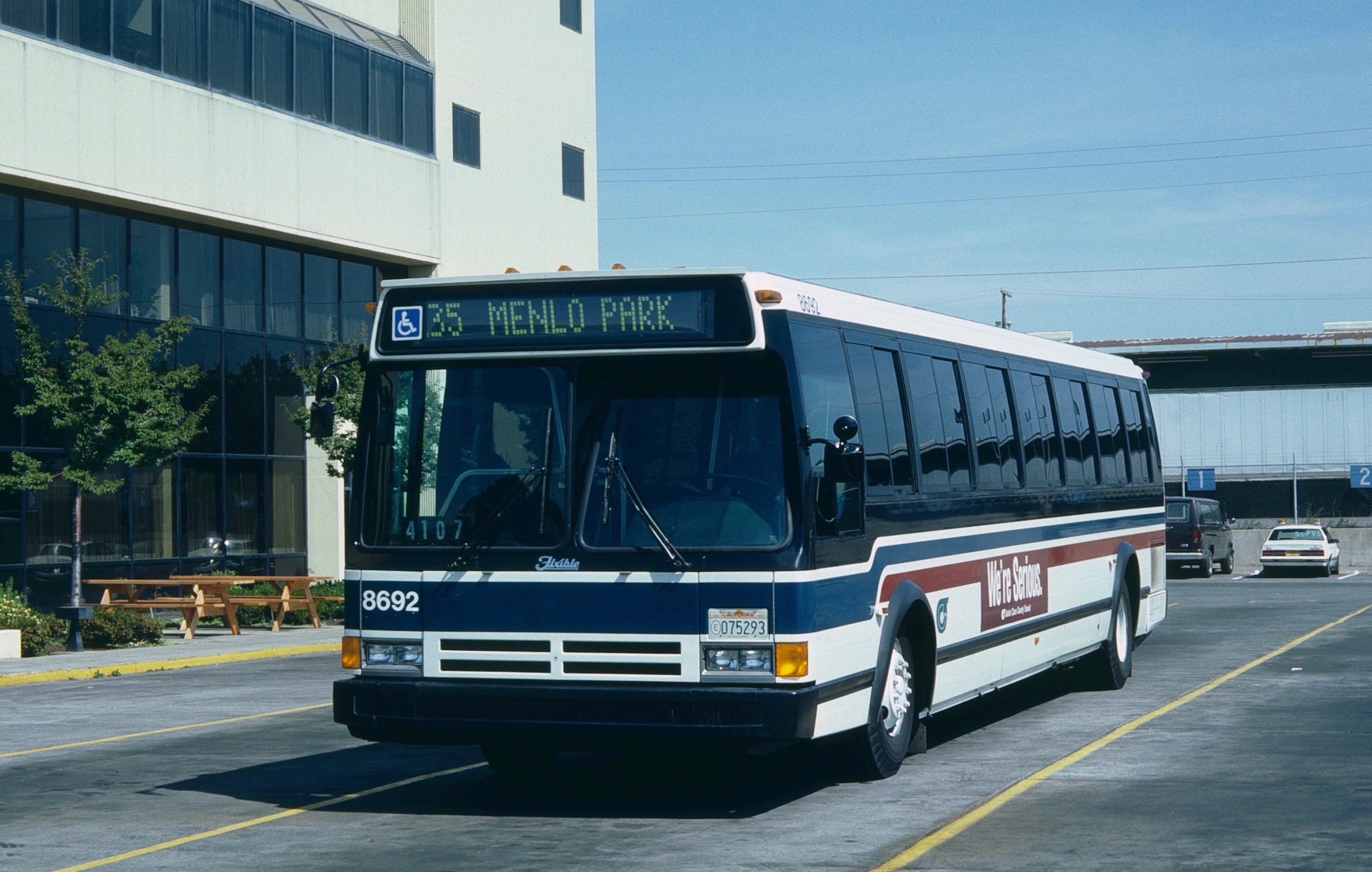 Santa Clara County Transit (San Jose, California) bus 8692, a 1986 Flxible Metro, at the Center Street Garage of Portland's TriMet (also the site of that agency's administrative headquarters, the building at left) for a manufacturer-sponsored demonstration loan in August 1987. The following year, TriMet purchased its first 50 Flxible Metro buses. (The Santa Clara County Transit District and its parent, the umbrella organization known as the Santa Clara County Transportation Agency, were replaced by the Santa Clara Valley Transportation Authority in 1995.)